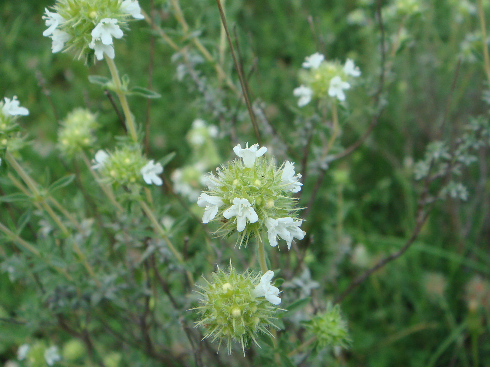 Thymus mastichina, Benaocaz, Cádiz (Spain)